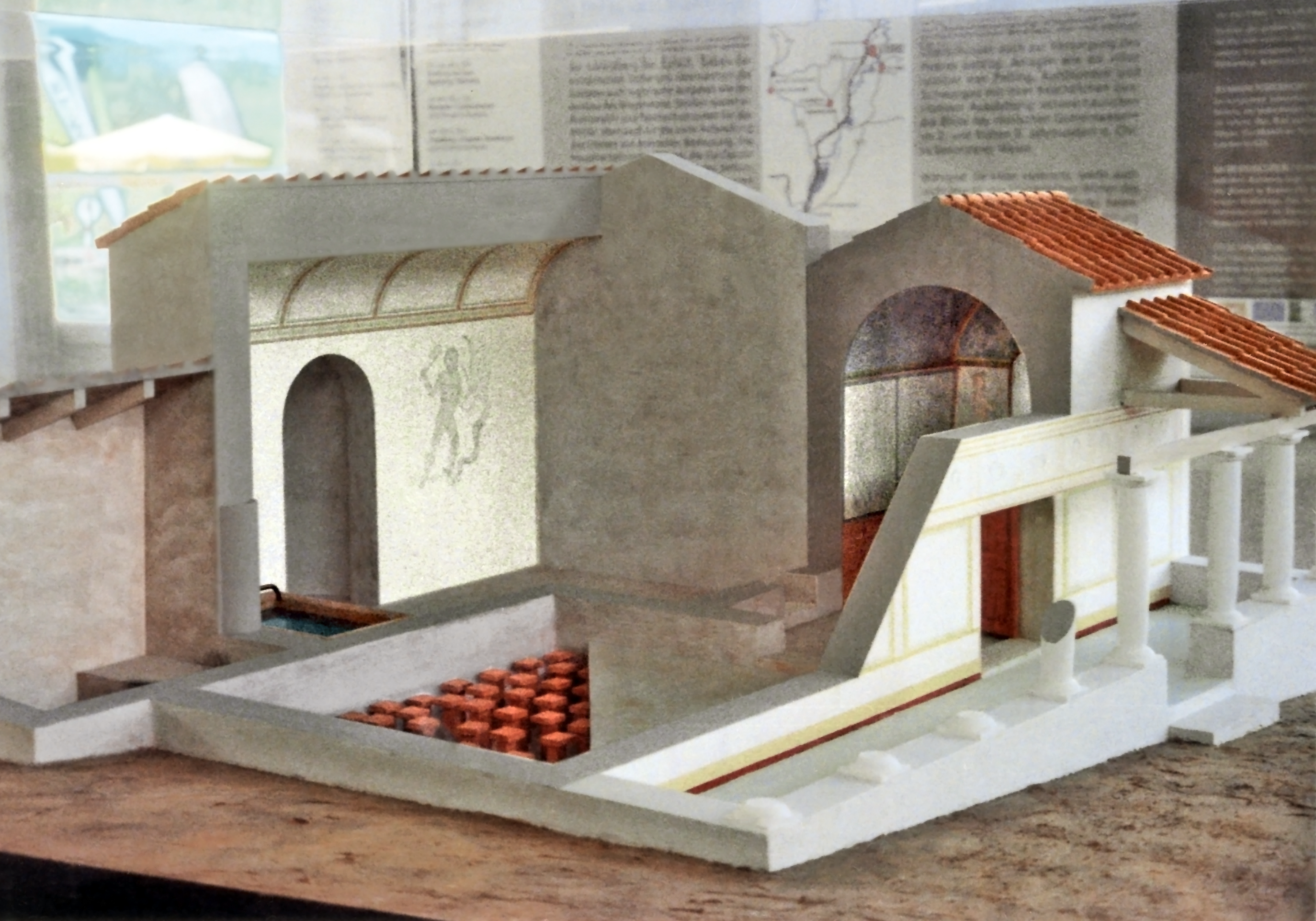 Römersiedlung Tegelberg, House 3, section through an ideal reconstruction of the spa. The model is in the shelter of the original Roman bath. Recorded on Thursday 16 July 2015th.